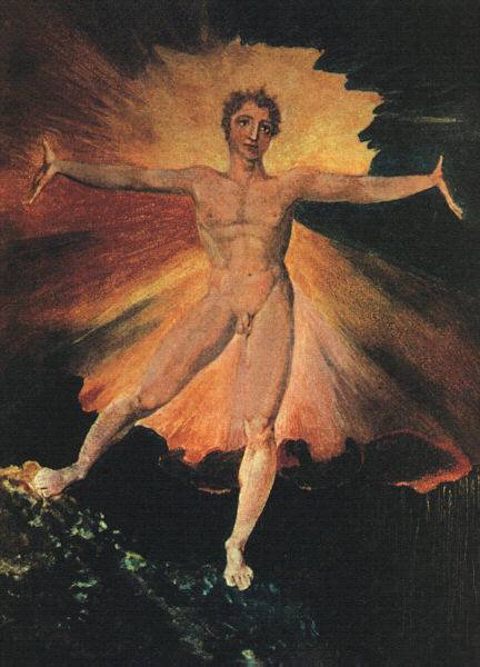 The Dance of Albion (circa 1794) by William Blake